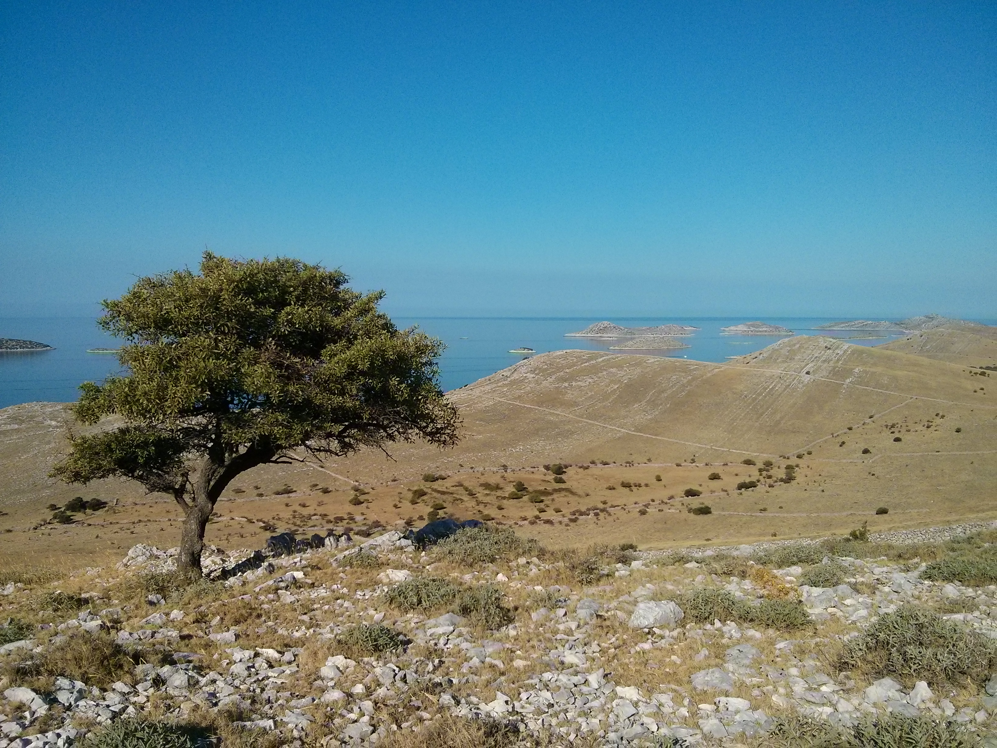 Kornat island near Vrulje.